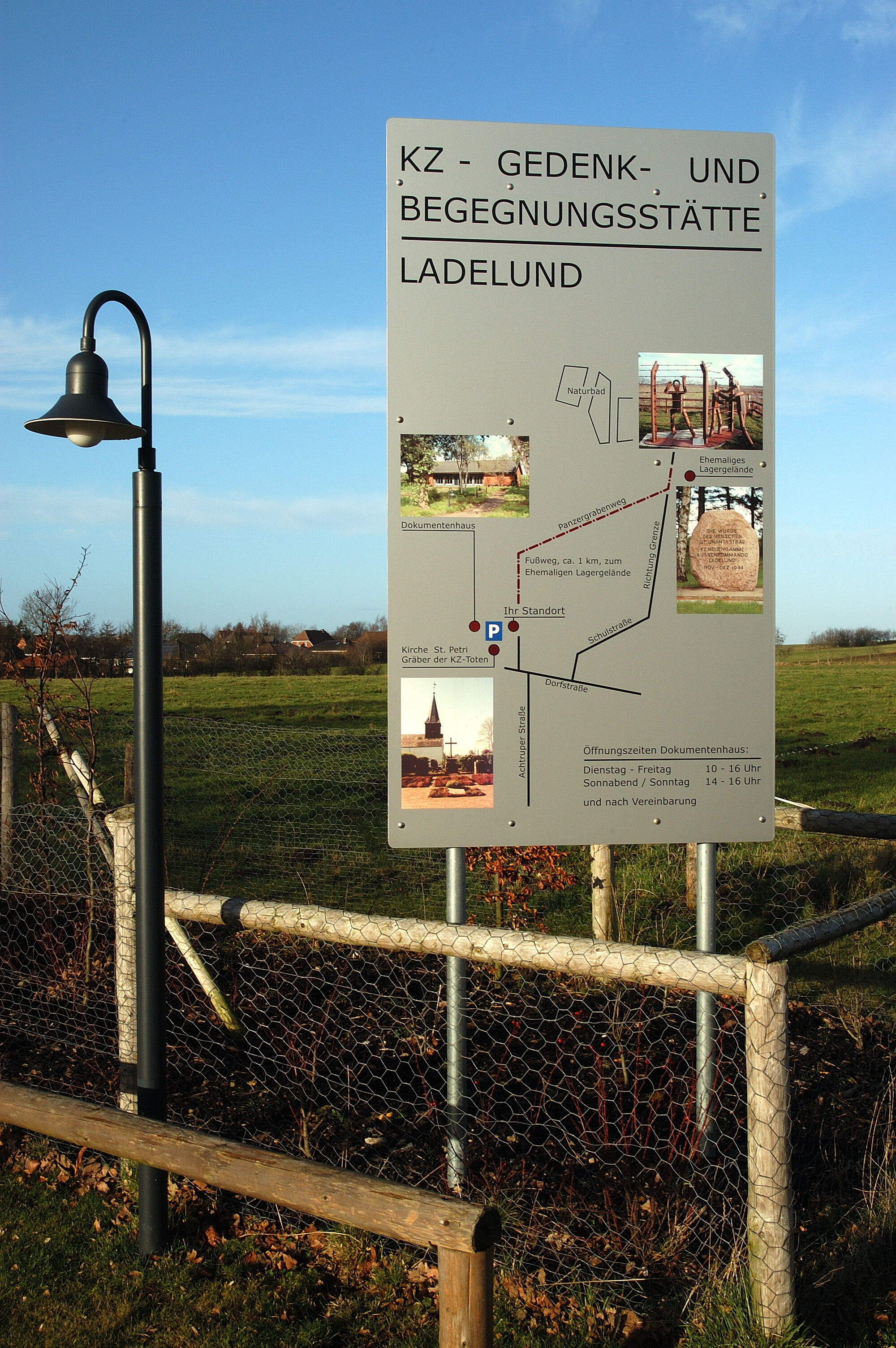 Memorial at the former concentration camp Ladelund, Germany